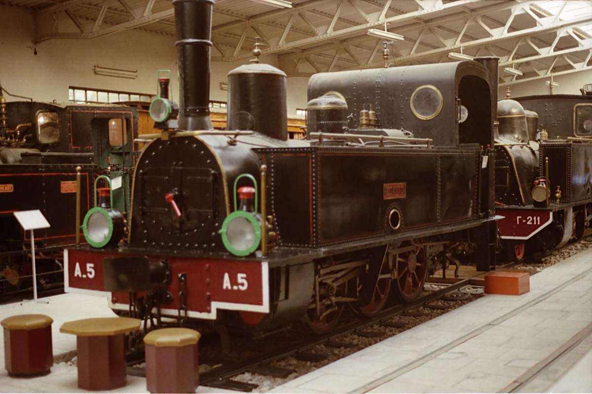 Metric gauge Couillet 0-6-0 steam locomotive A5 Messolongi of the Northwestern Greece Railways (1888). Preserved in Athens Railway Museum.